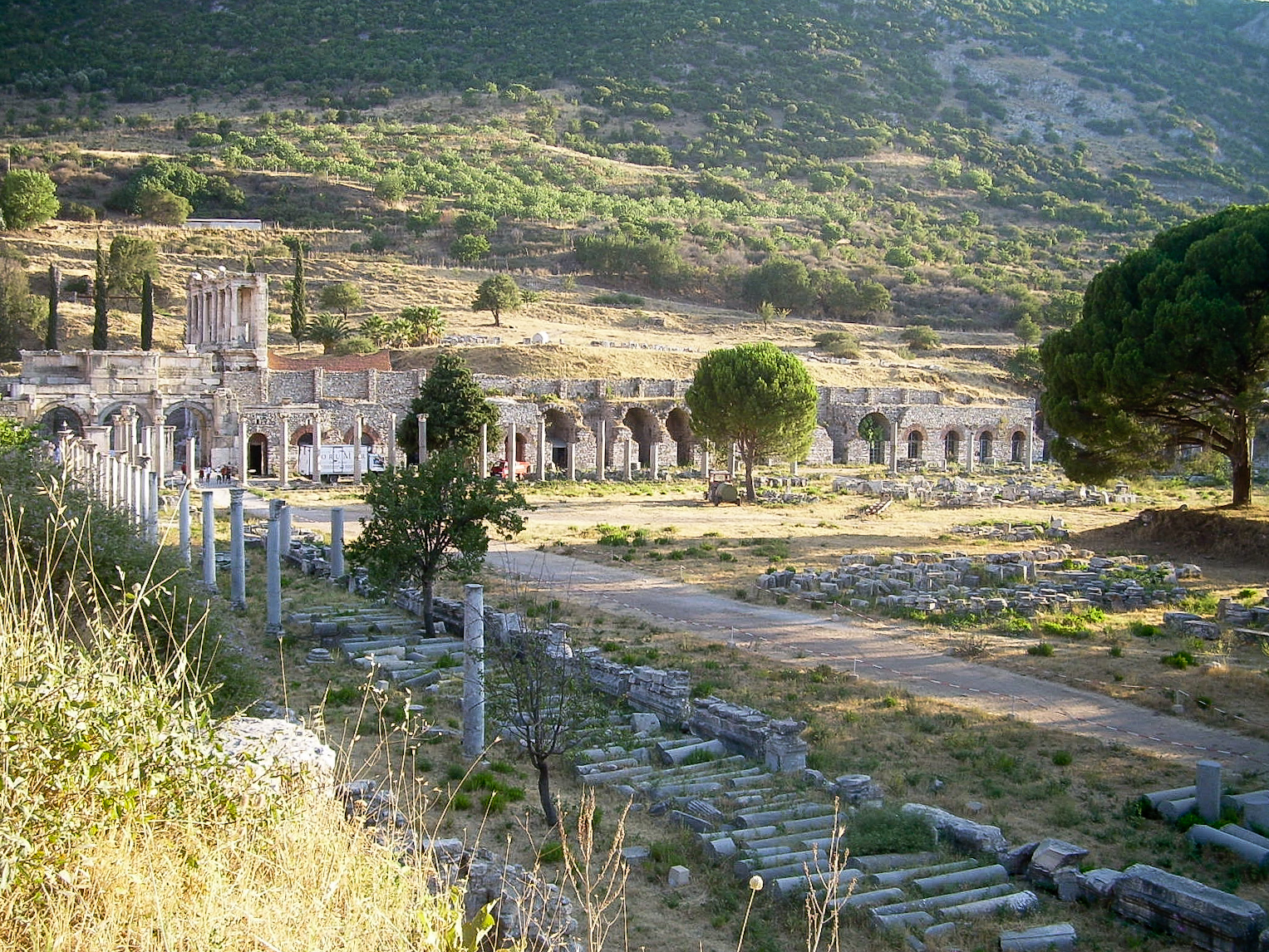 Agora, Ephesus